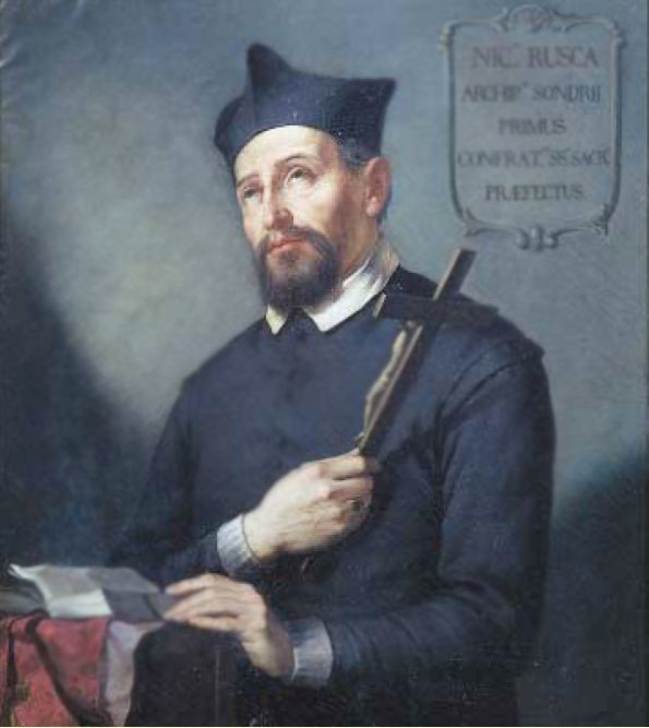 Martyr blessed Nicolò Rusca (1563-1627) who considered protestantism dangerous